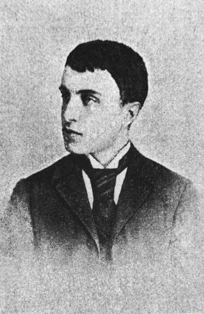 Nikolaos Episkopopoulos (1874-1944): Greek writer